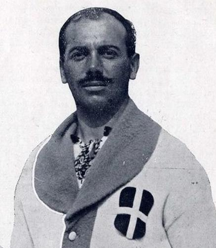 The Italian Olympic gymnast Giorgio Zampori